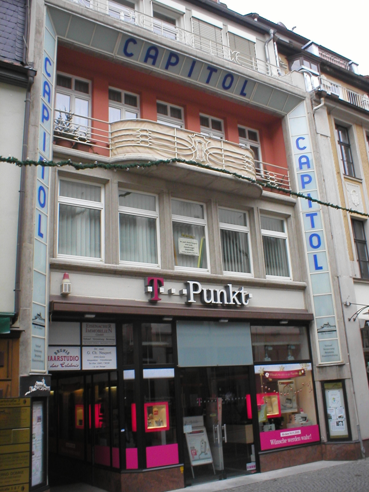 Cinema passage Capitol